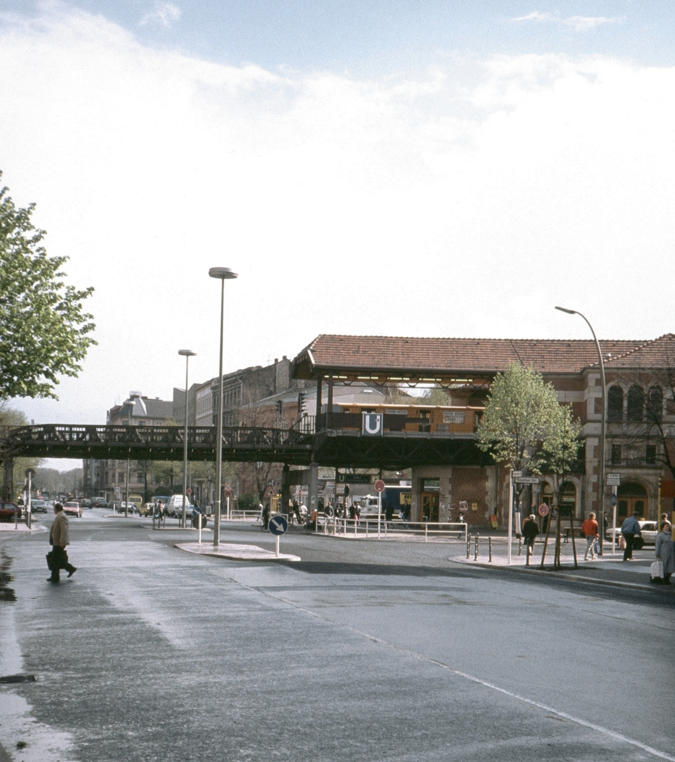 Schlesisches Tor U-Bahn station in Berlin, Germany